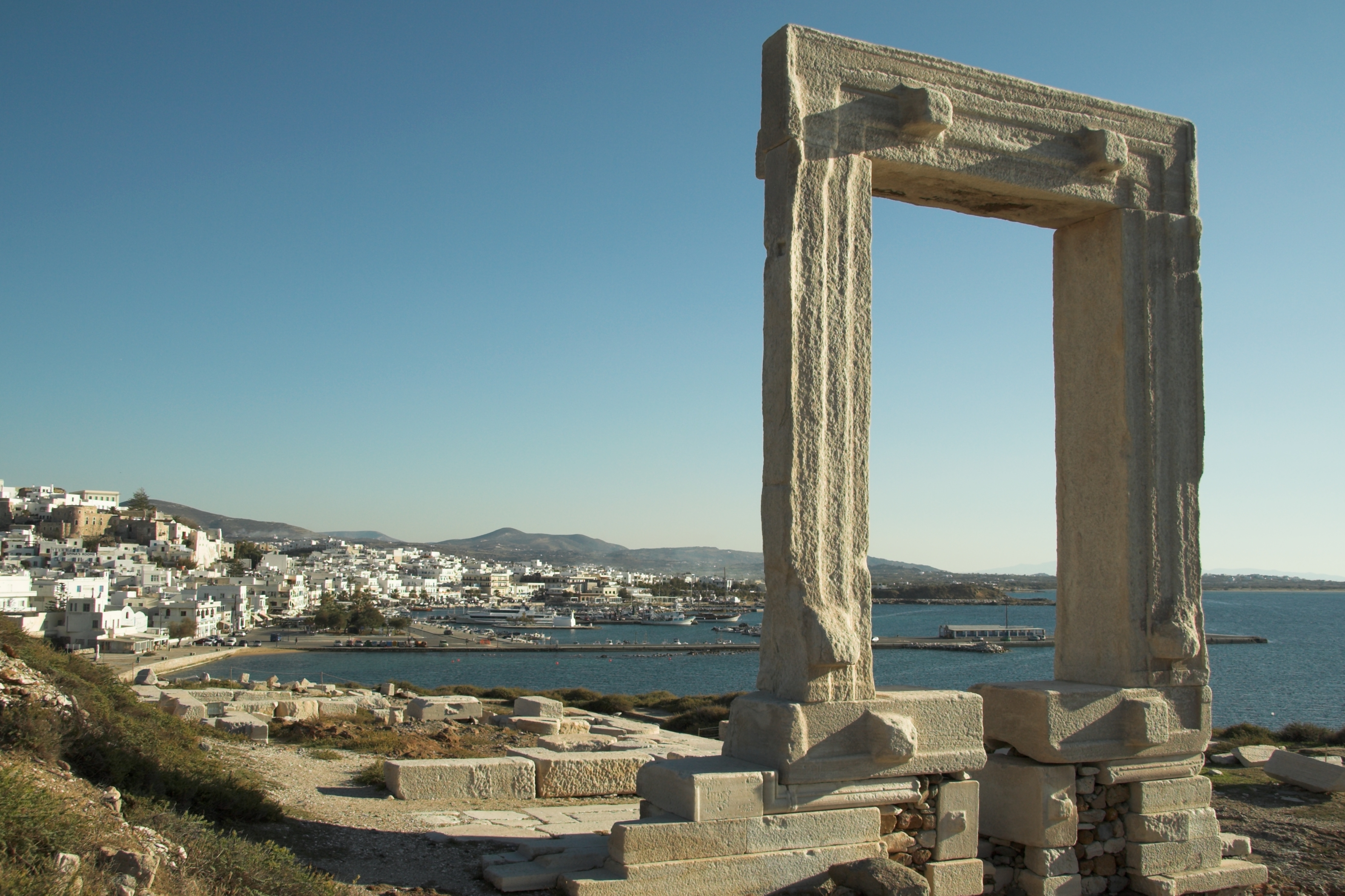 Temple of Apollo on the islet Palatia, near Naxos Town.